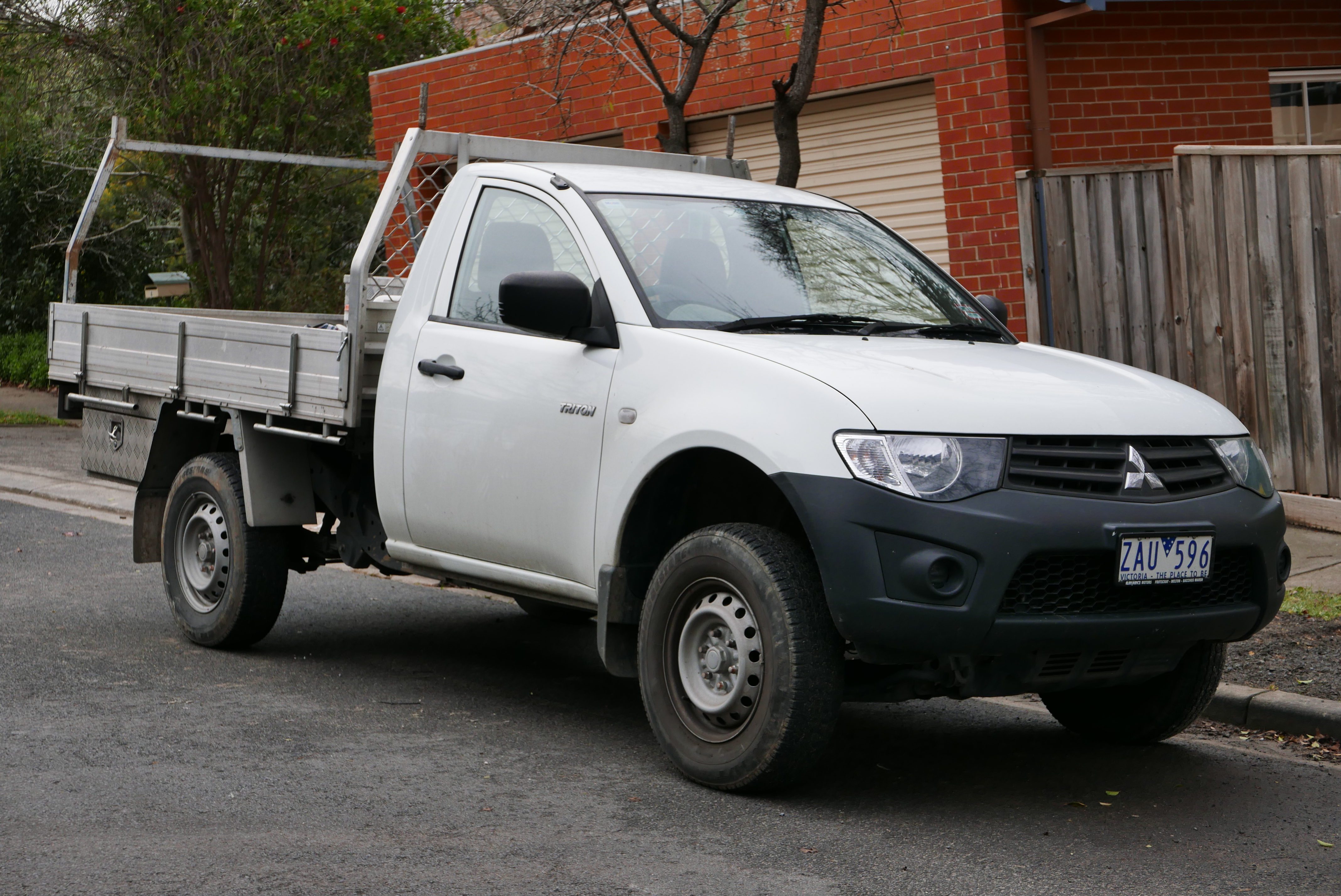 2012 Mitsubishi Triton (MN MY12) GL cab chassis. Photographed in Eaglemont, Victoria, Australia. Vehicle registration enquiry resultsJurisdictionVictoriaRegistrationZAU596Chassis codeMMAENKA50CD013298Engine code4G64UCAN3141Compliance date2012-05Year of manufacture2012